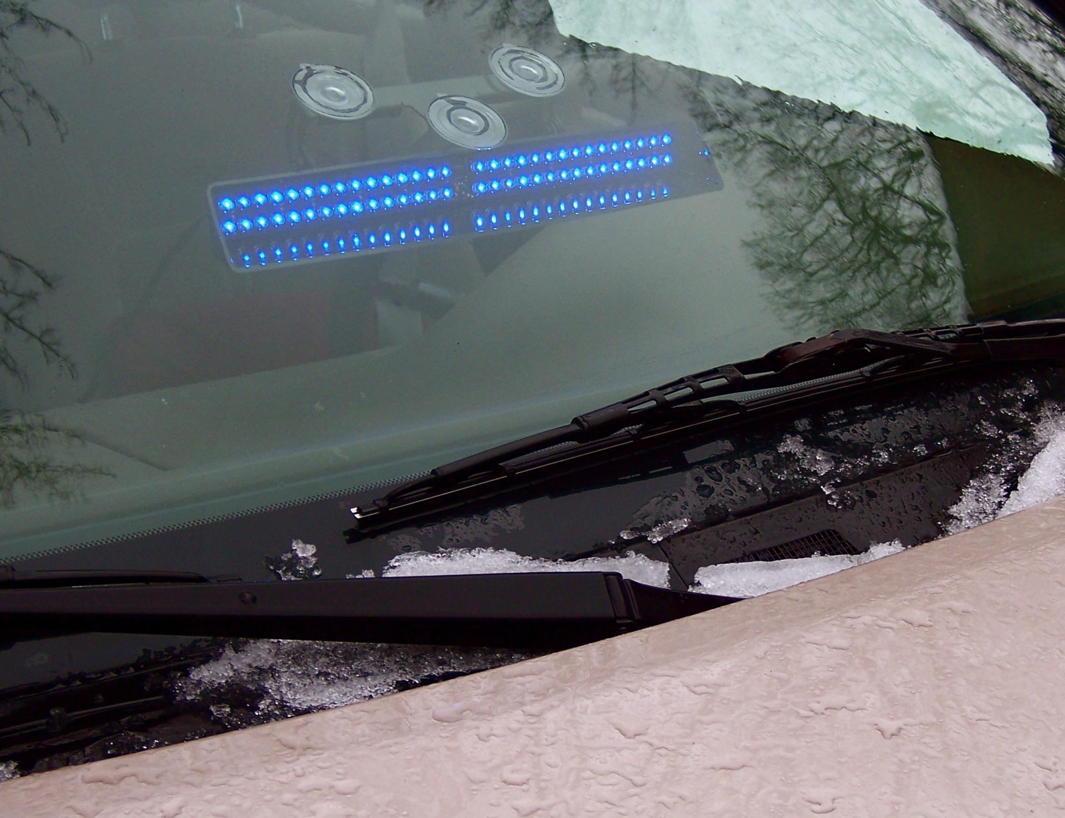 blue courtesy lights, volunteer firefighter